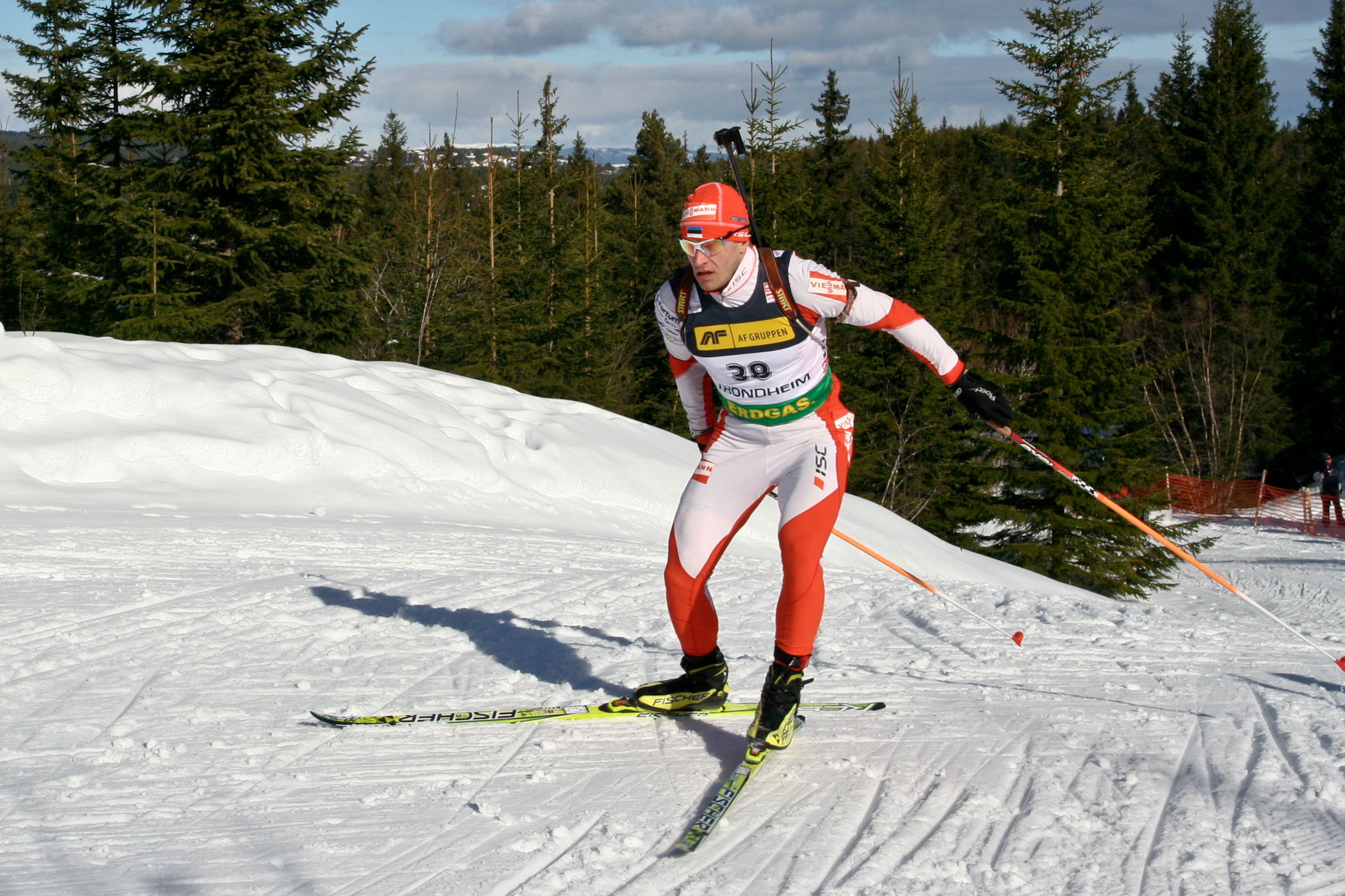 10th today. IBU World Cup Biathlon Trondheim 19 March 2009. The license on this photo was changed on 15 February 2010 from All rights reserved to Creative Commons (CC-BY-SA). At the same time, a bigger version (2100x1400px) of the photo replaced the old one. If you use this picture, remember to give credit according to the license (